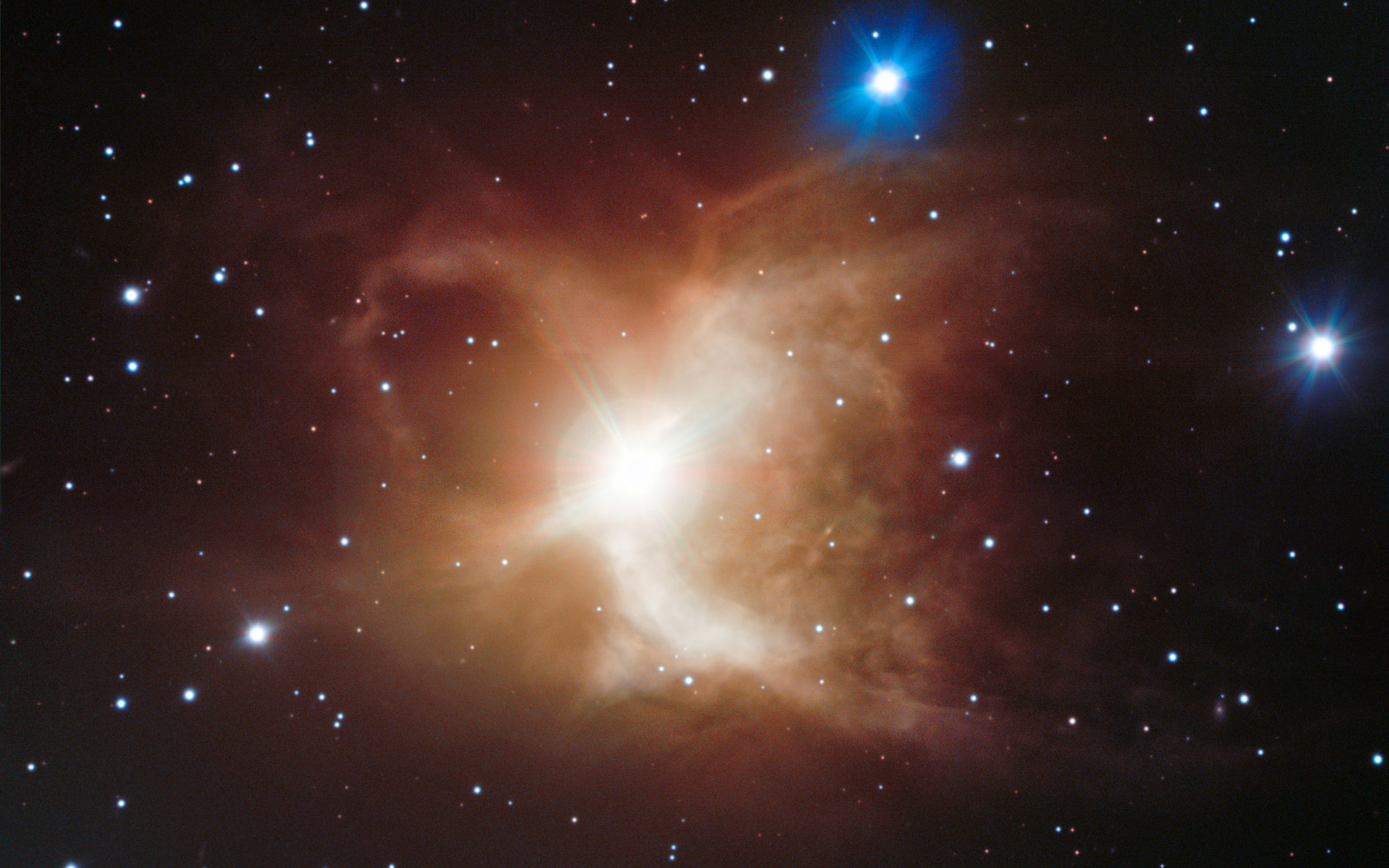 Located about 1200 light-years from Earth in the southern constellation of Carina (The Ship’s Keel), the Toby Jug Nebula, more formally known as IC 2220, is an example of a reflection nebula. It is a cloud of gas and dust illuminated from within by the central star, designated HD 65750.